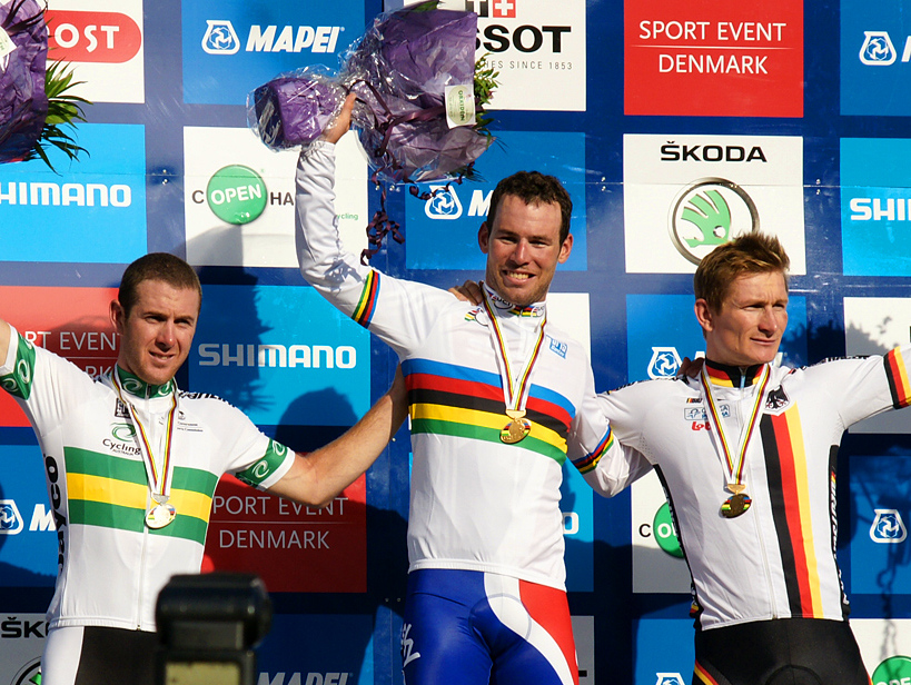 2011 UCI Road World Championships – Men's road race - The podium with runner-up Matthew Goss, Australia (left) the winner and world champion Mark Cavendish, Great Britain (center) and no. 3 André Greipel, Germany (right)